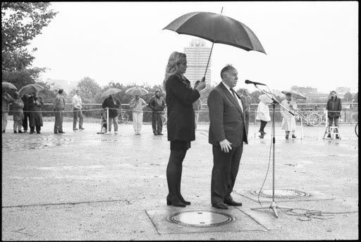 Memorial for the victims of the terror attacks at the Olympic Games in Munich in 1972 (1995)